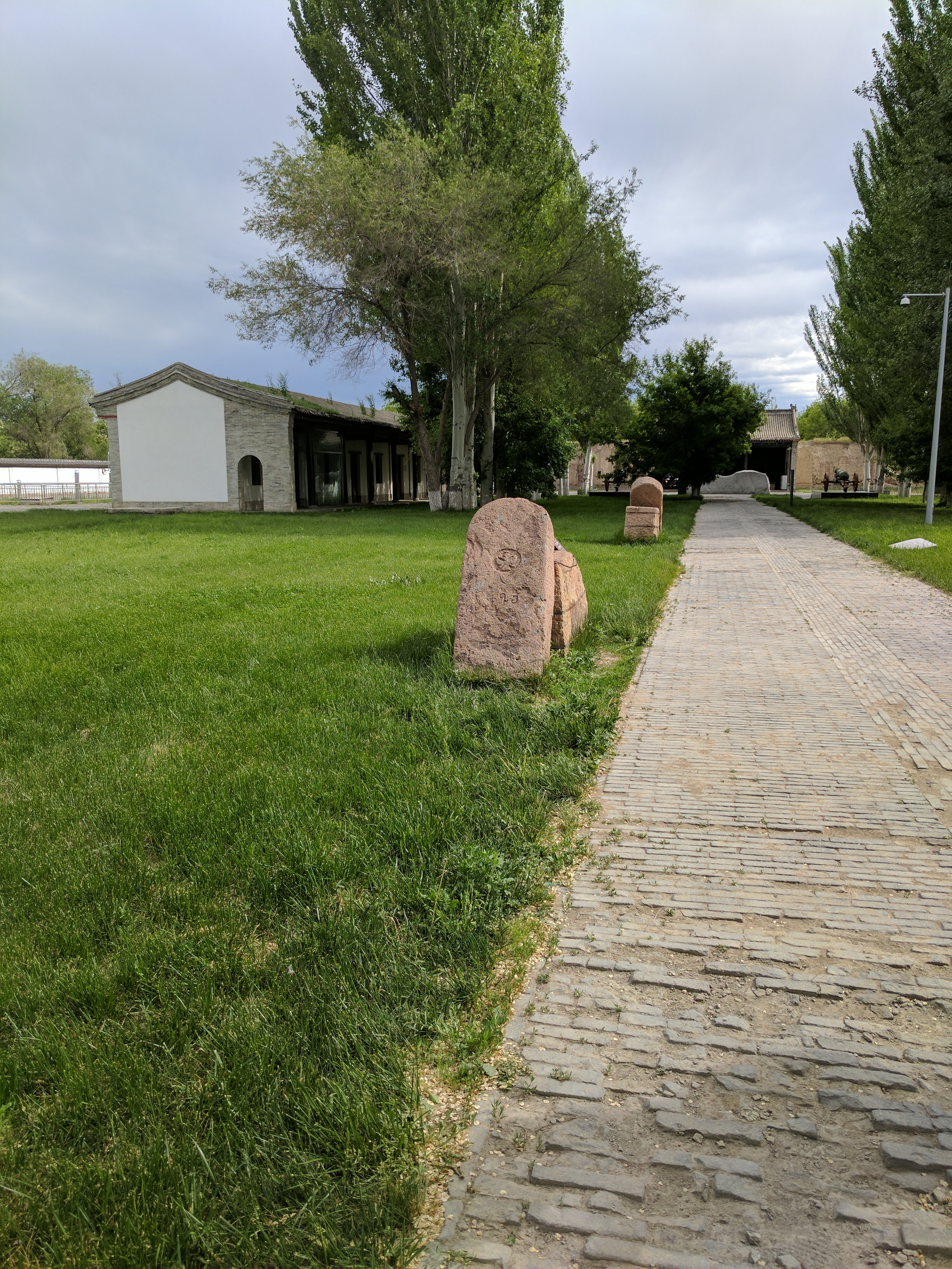 The Ili Commandery (Former Residence of Ili General)